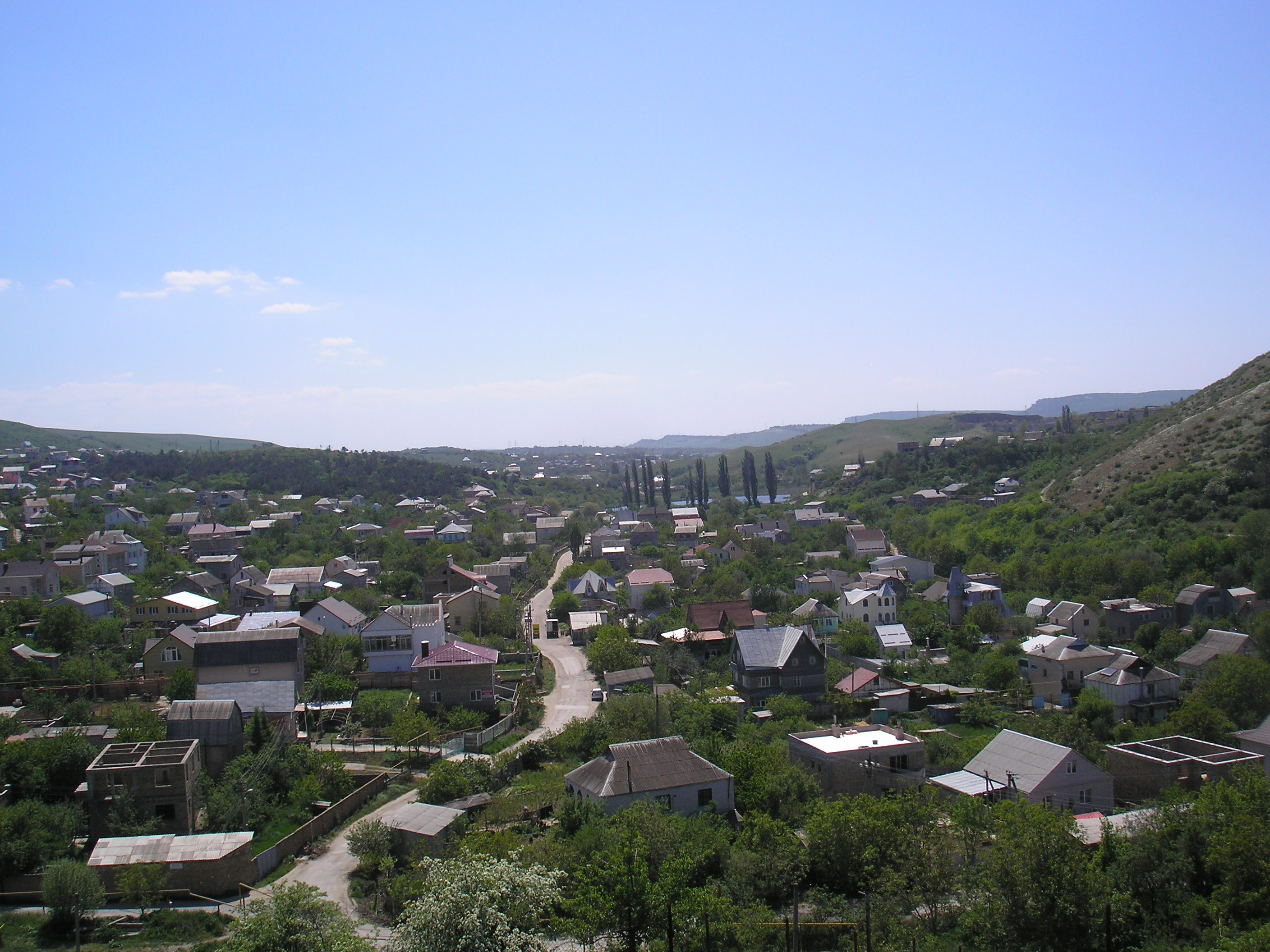 Village Lozovoe, Simferopol district, Crimea